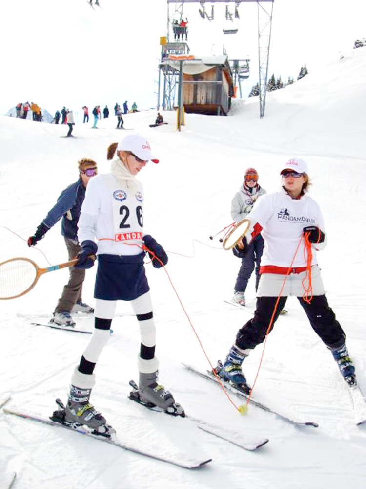 Scaramanga Roped Race in Mürren. Competitors before the start.